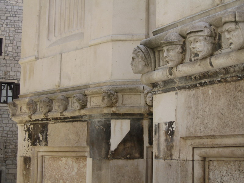 Faces on Saint James's cathedral